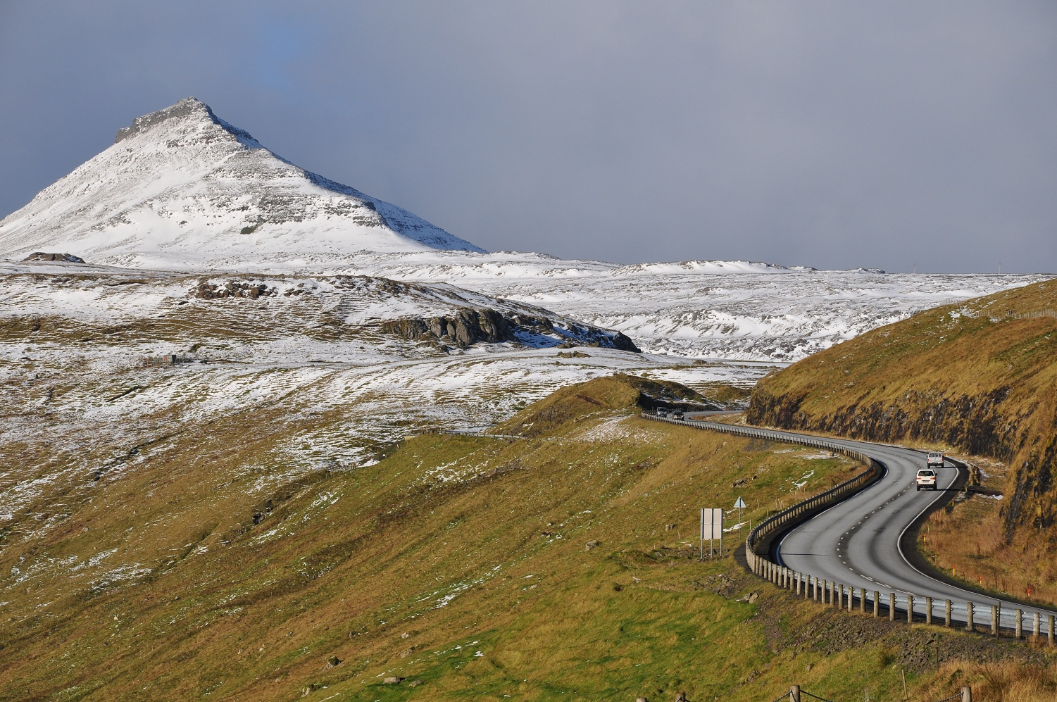 The road network on the Faroe Islands is excellent, considering the small number of people living there. Six of the main islands are connected by tunnels, bridges and dams. Shown is the road from Skipanes to Syðrugøta on the island Eysturoy.